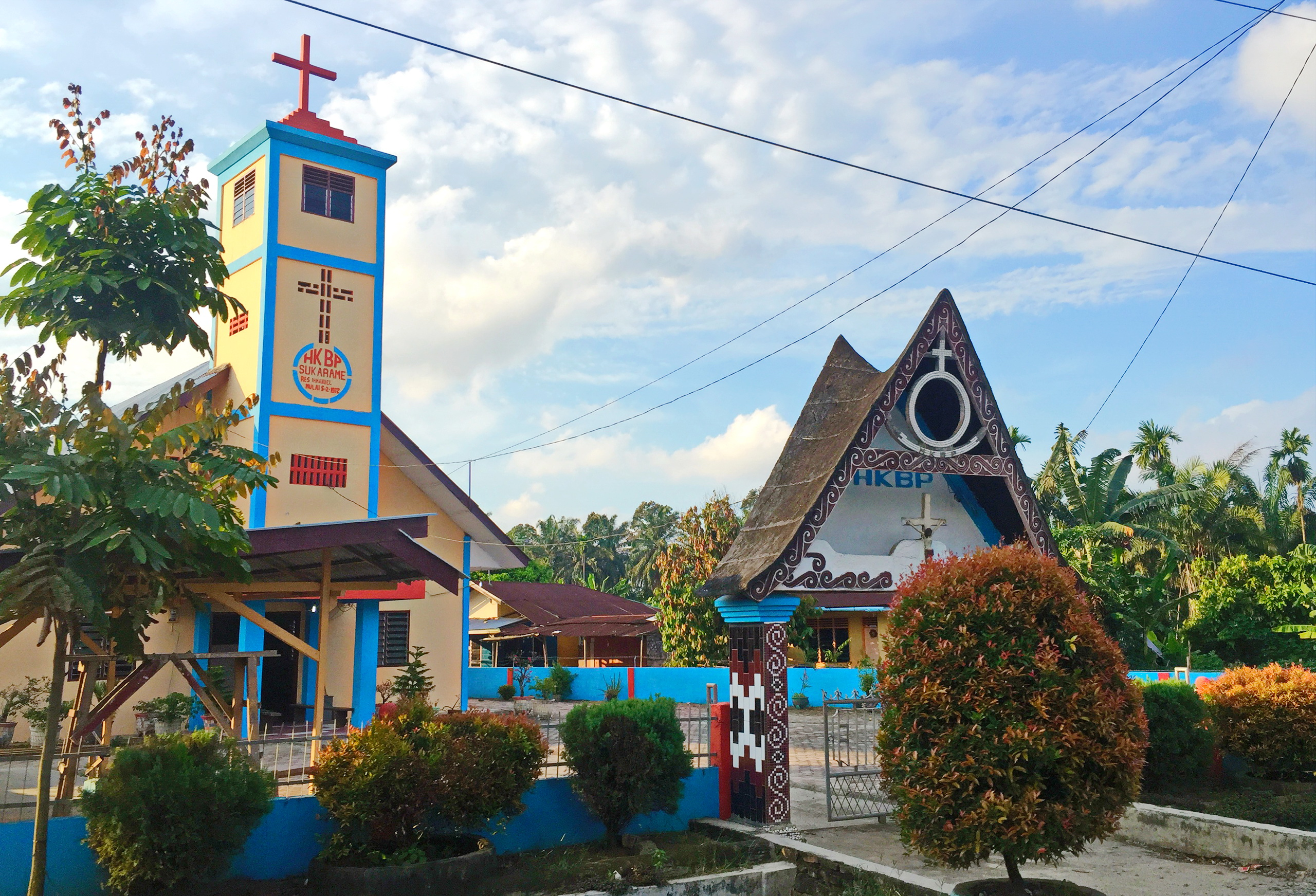 HKBP Sukarame, Church in Dolok Masihul, Serdang Bedagai, North Sumatra